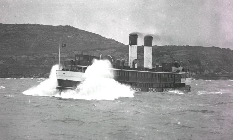 Sydney Ferry CURL CURL 1934 crossing Sydney Heads